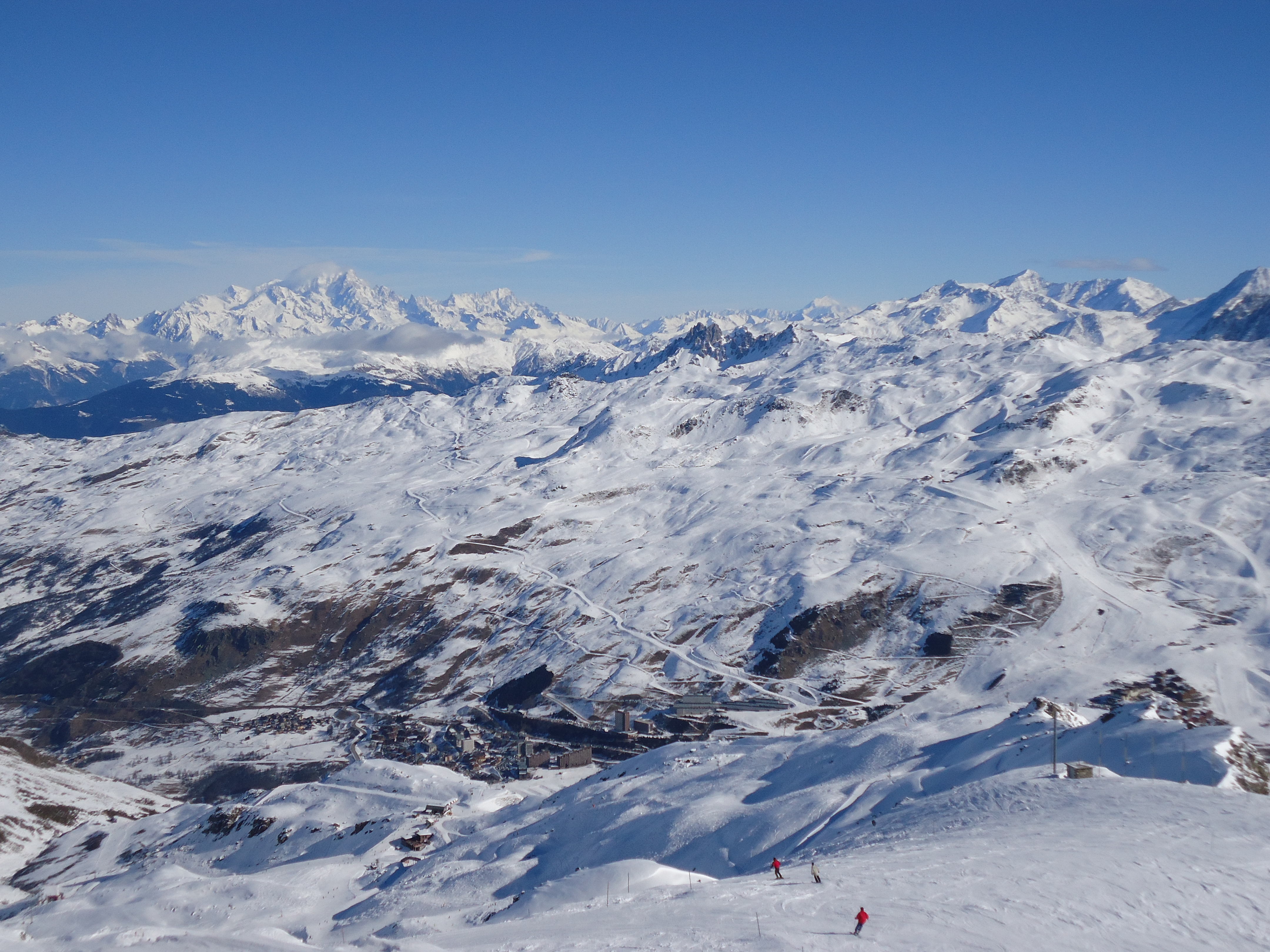 The skiing area of Les Menuires, France, with the Mont Blanc on the background